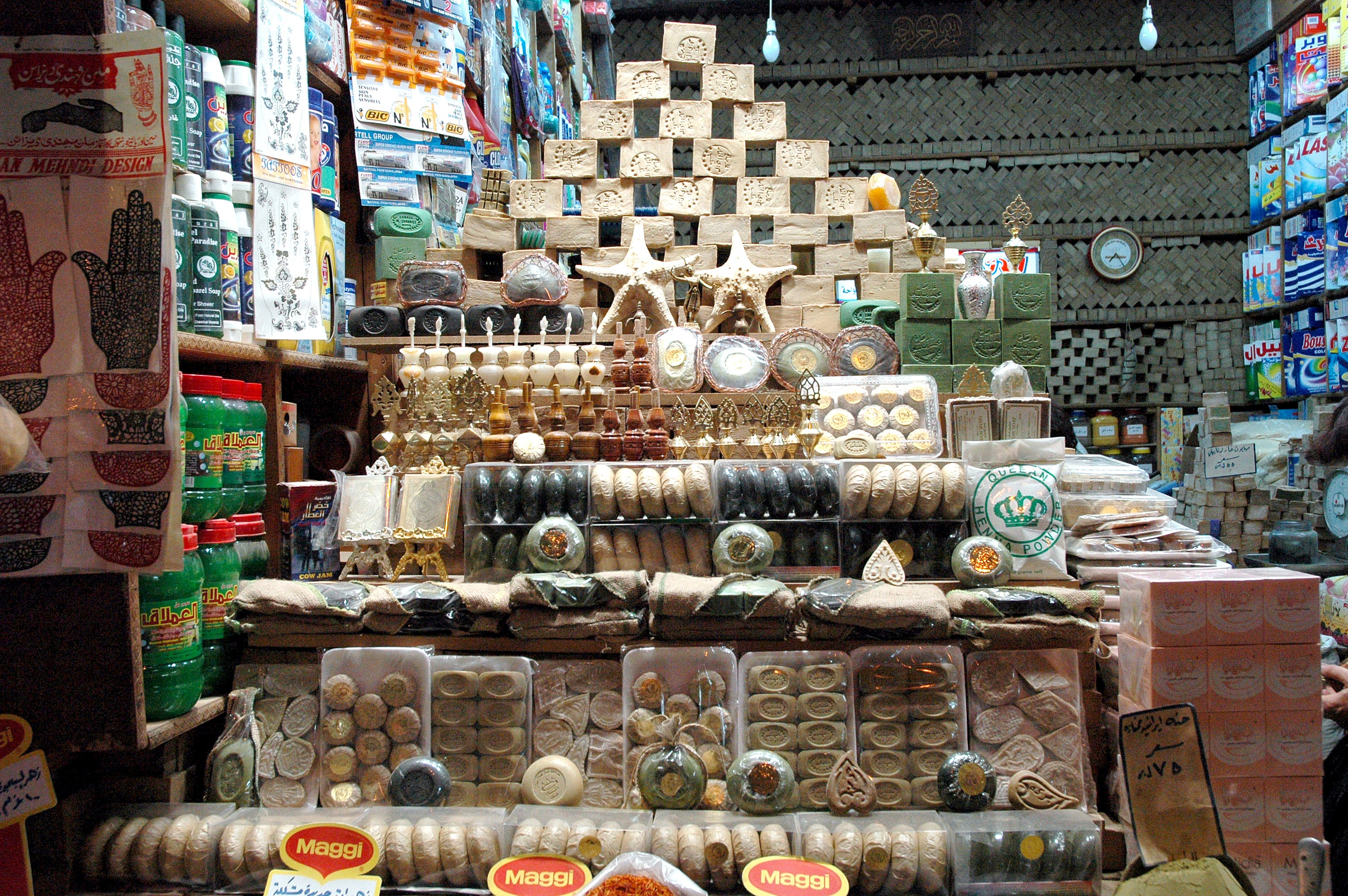 Suq, Aleppo in 2004